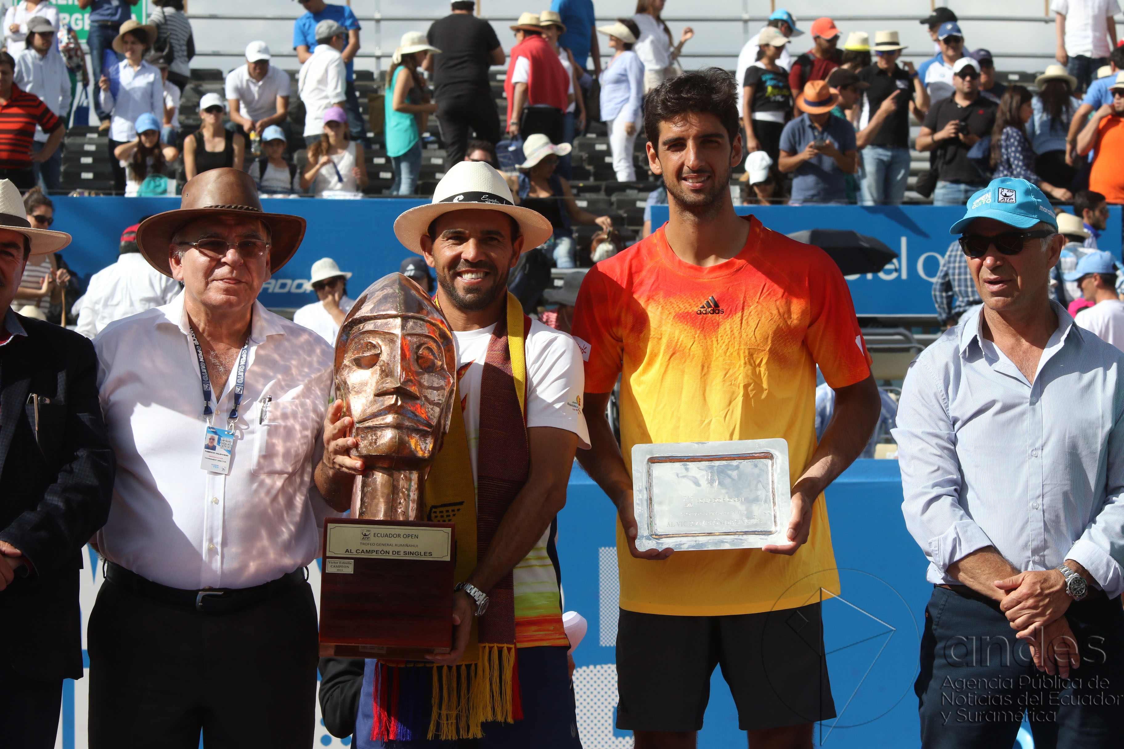 2016 Ecuador Open Quito Final: Víctor Estrella Burgos vs. Thomaz Bellucci.